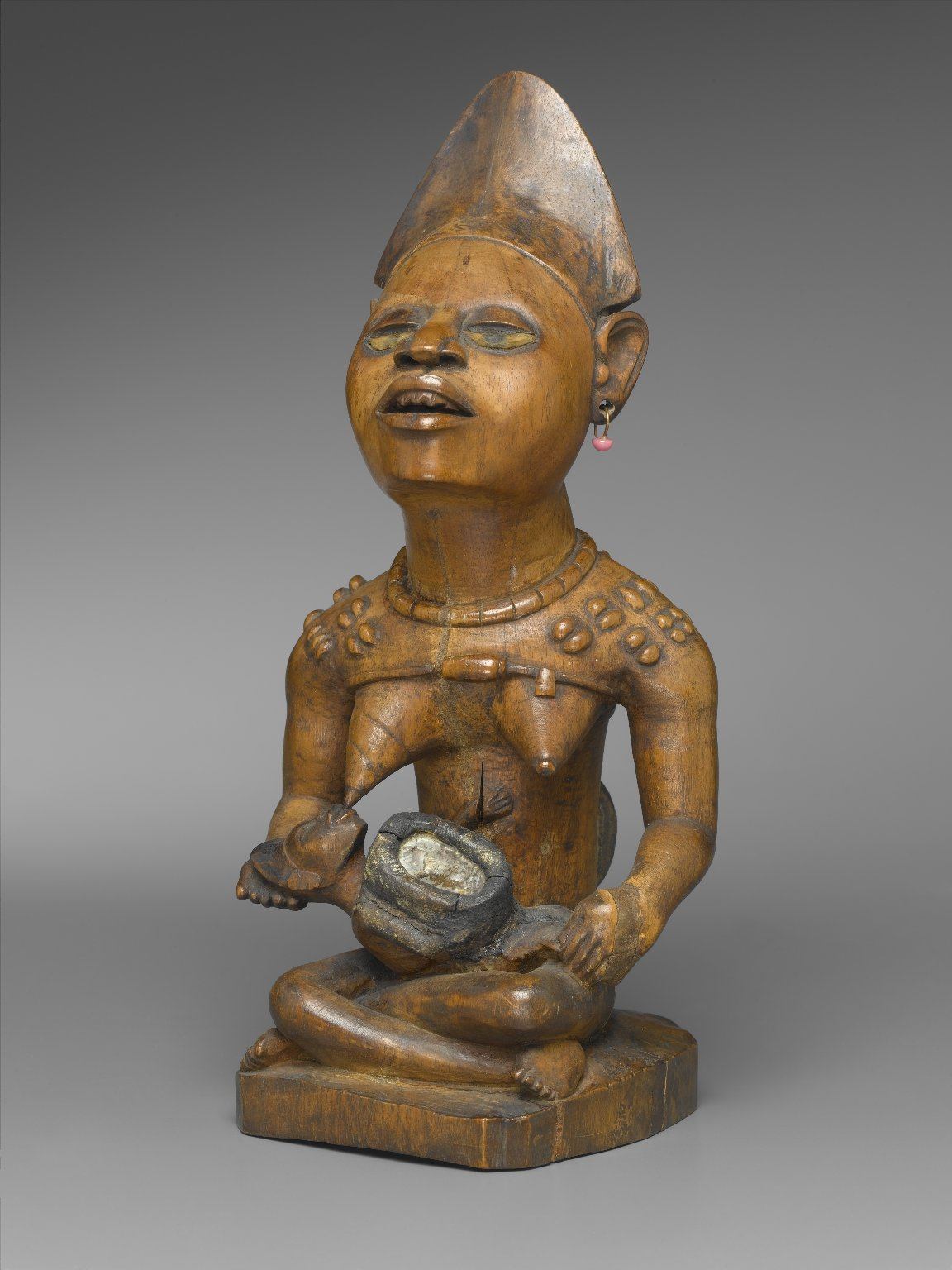 Carved wooden mother and child. Mother, who is nursing child, is seated cross-legged, supporting child's head with right hand and legs with left hand. She has high, spade-like headdress, open protruding mouth revealing filed teeth, and glass eyes with black pupils. Ears are carved spatially and have pink bead earrings strung on wire through ear lobes. Over much of shoulders and back are scarification marks. Above breasts are a band and a necklace. Infant child, with mirror in center of abdomen, has hand on mother's stomach. Second mirror is attached with four nails to lower part of mother's back. There is a deep crack running down the figure of the mother from below her chin through the torso. Other cracks throughout figure and base. Often old crack repairs open up again and need to be refilled.